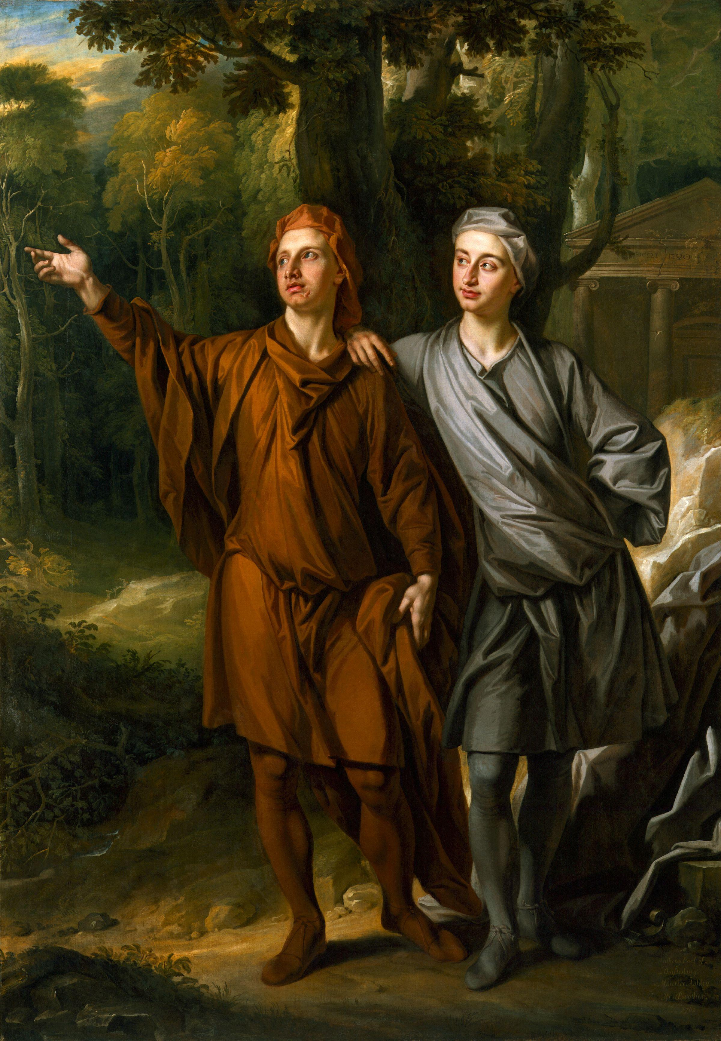 Maurice Ashley-Cooper; Anthony Ashley-Cooper, 3rd Earl of Shaftesbury, by John Closterman (died 1711). All images in this batch have been confirmed as author died before 1939 according to the official death date listed by the NPG.